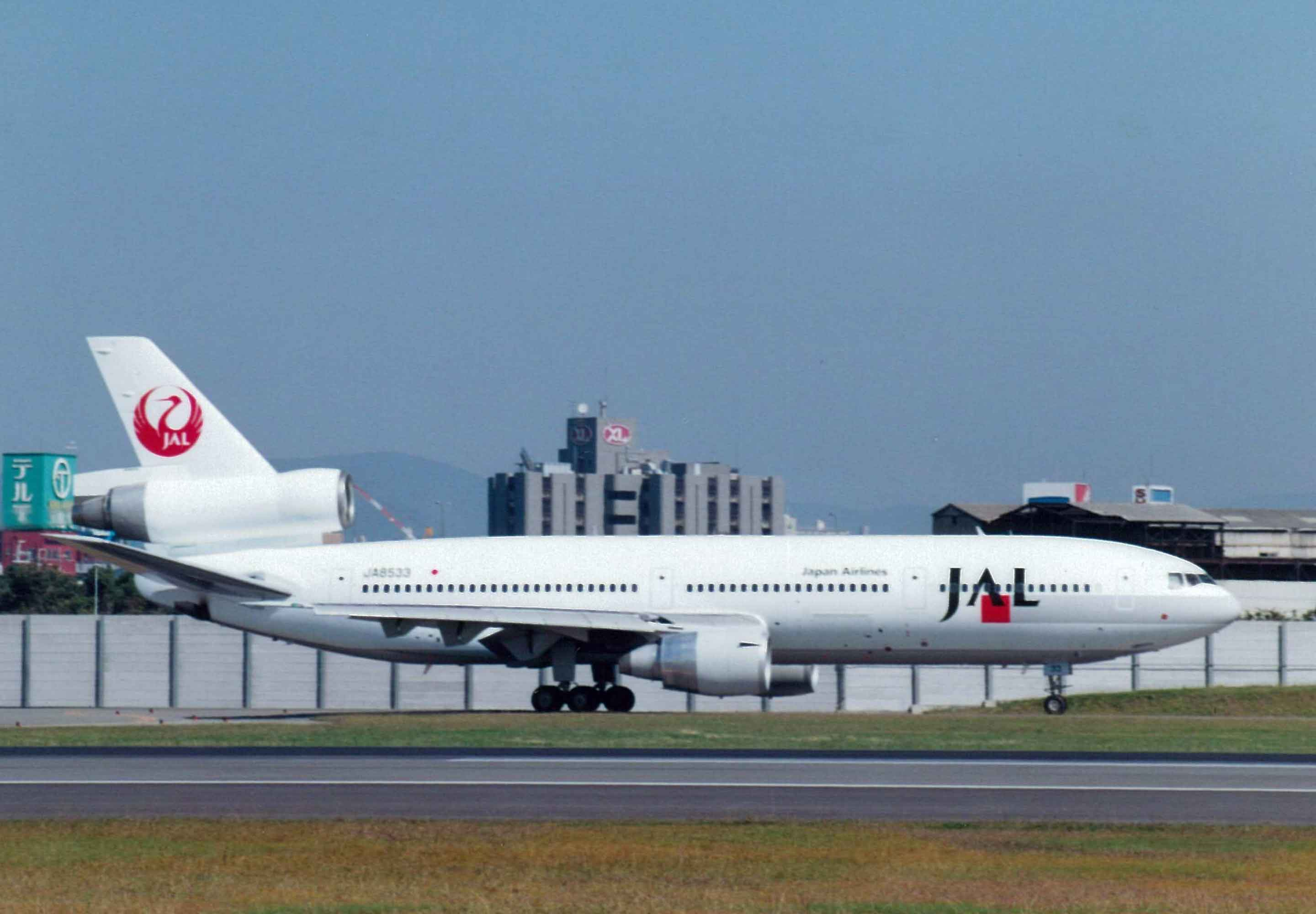 It is Airliners which it photographed in Itami, Osaka Airport.